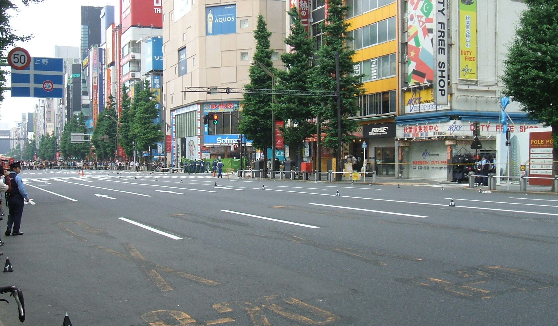 Akihabara massacre